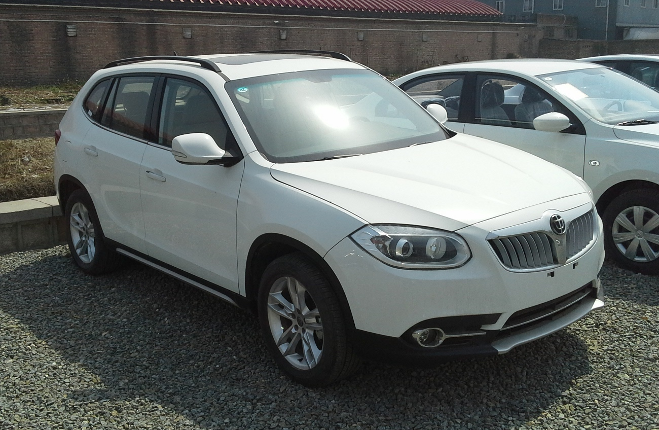 Brilliance V5 photographed in Beijing, China.